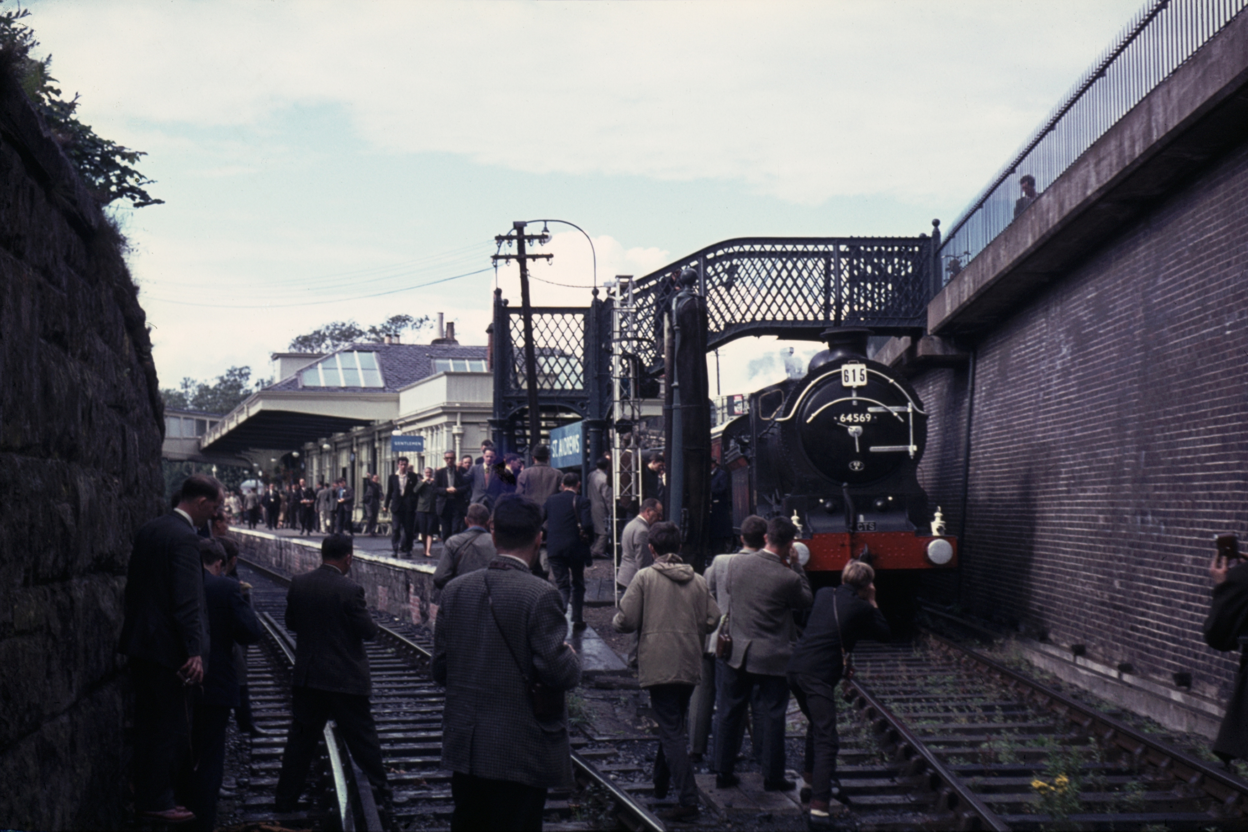 Photo of St. Andrews staion with 1965 railtour